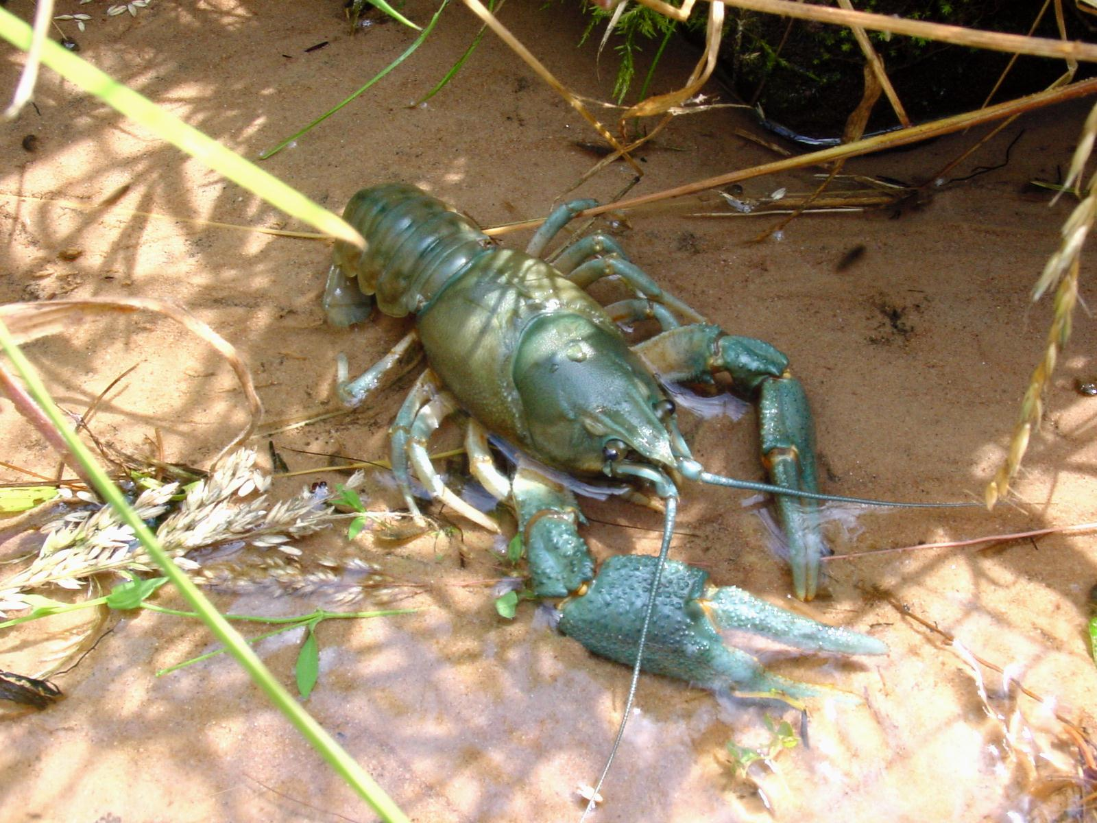 Crayfish Astacus astacus from regional natural park Parc naturel régional des Vosges du Nord